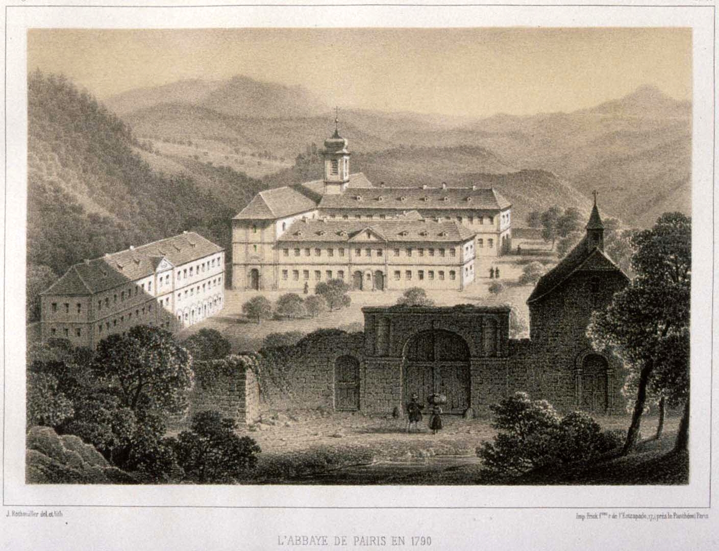 The abby of Pairis near Orbey (Haut-Rhin, France) in 1790.